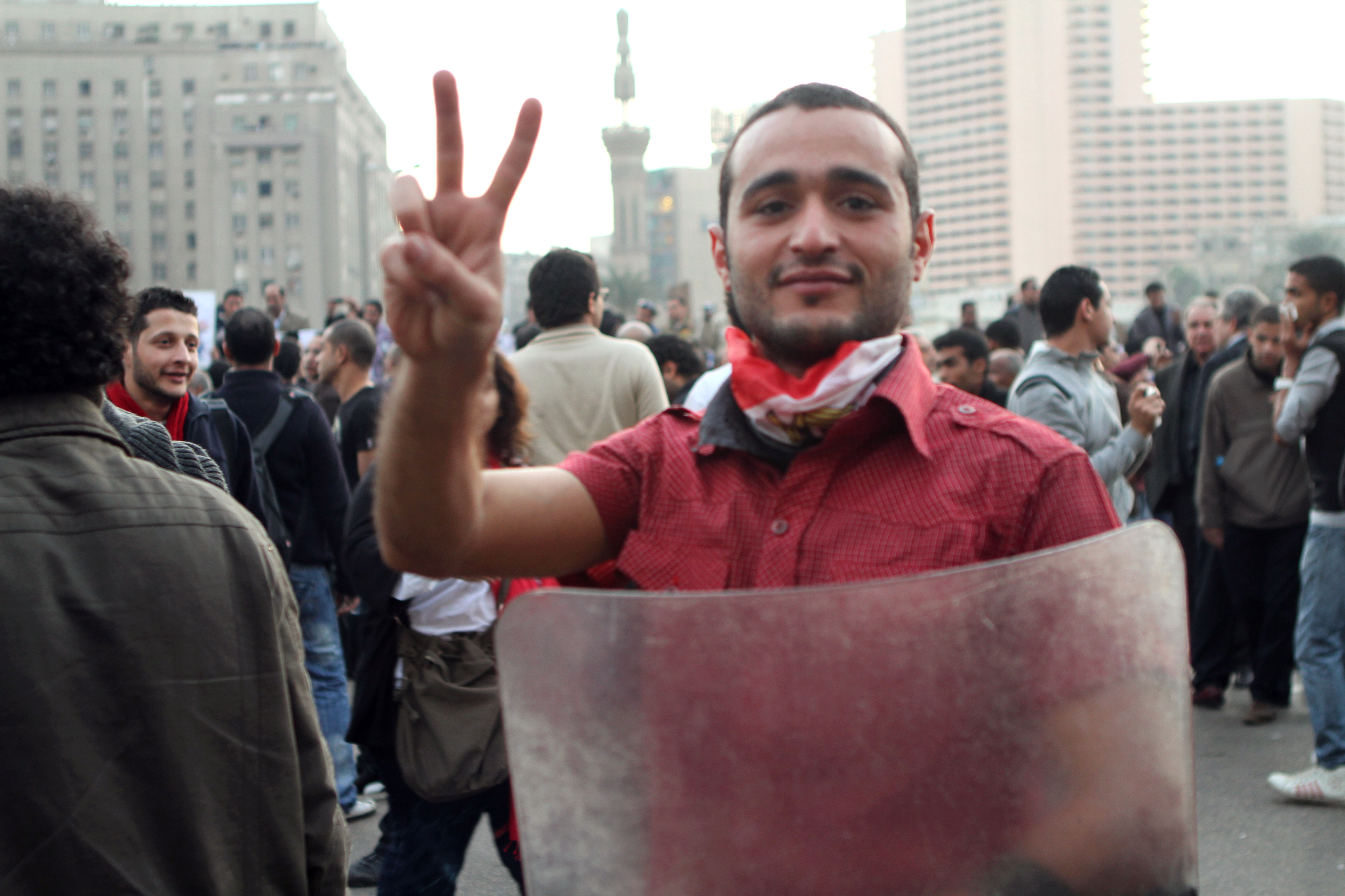 Photograph of Ahmed Douma with a CSF shield during the "Day of Anger"